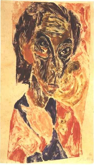 Head of a sick man - Selfportrait